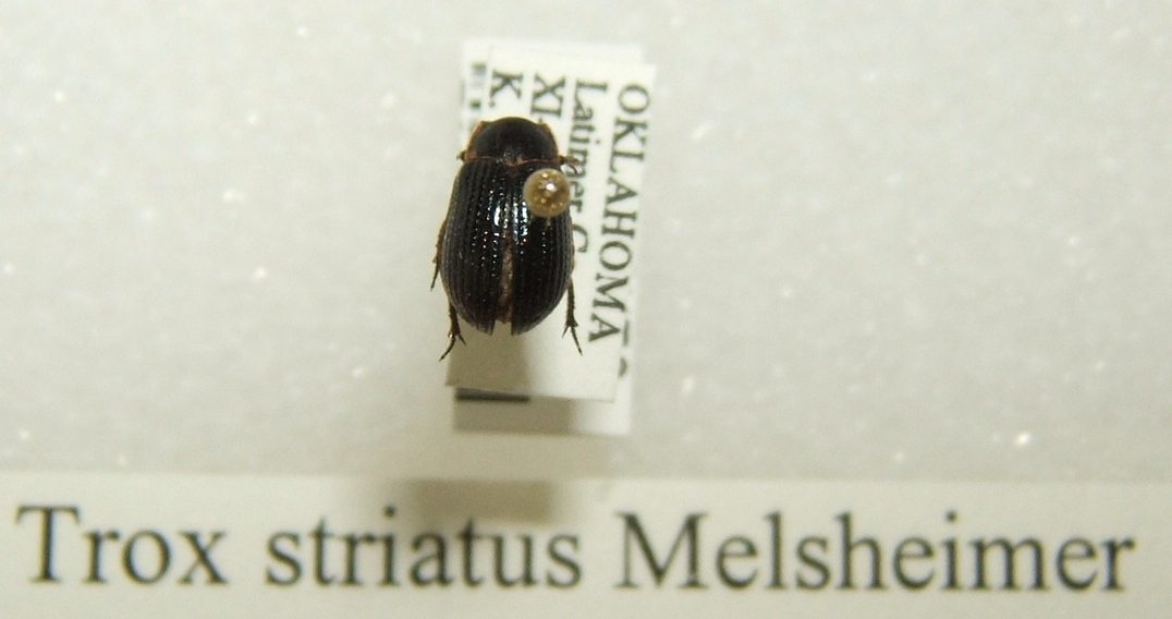 Trox striatus adult taken by Shawn Hanrahan at the Texas A&M University Insect Collection in College Station, Texas. Cropped version: Trox striatus sjh.cropped.jpg